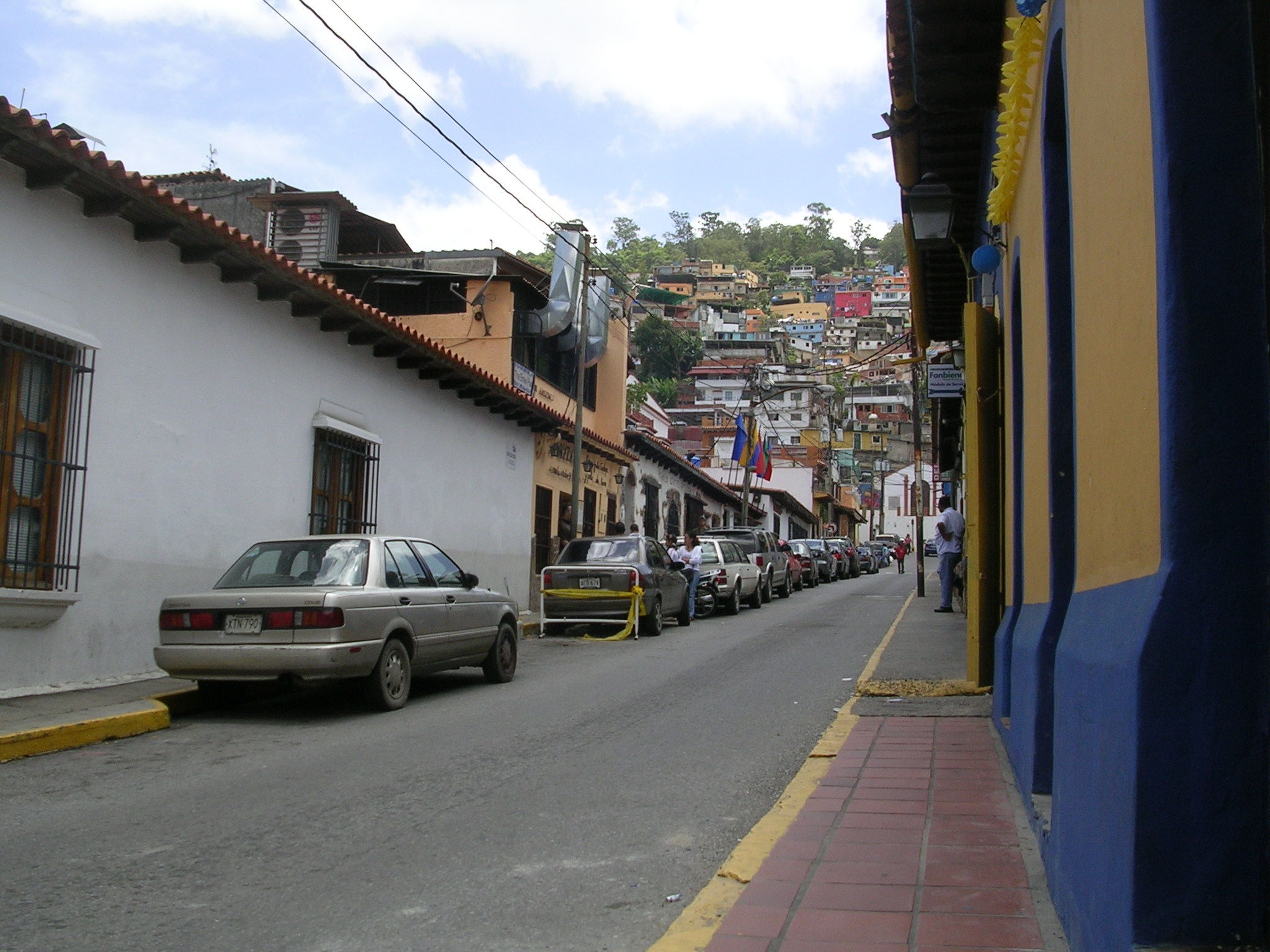 A street of the Hatillo town